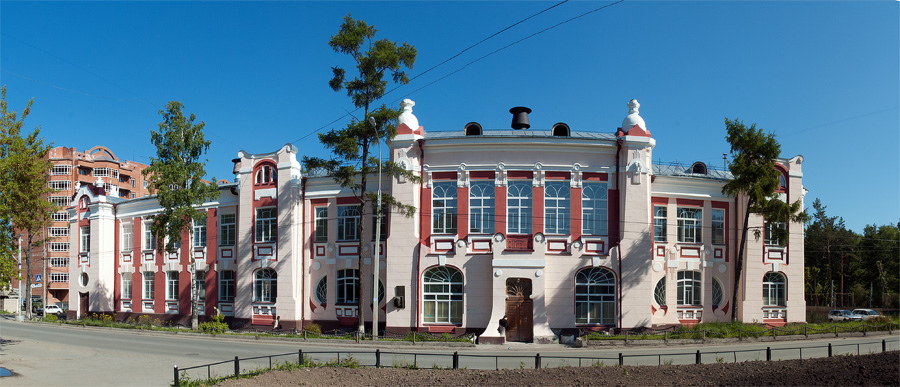 Tomsk State Pedagogical University